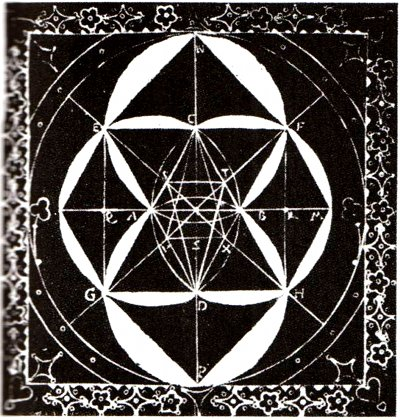 Giordano Bruno, "Figura mentis", from "Articuli centum et sexaginta adversus huius tempestatis mathematicos atque philosophos", 1588